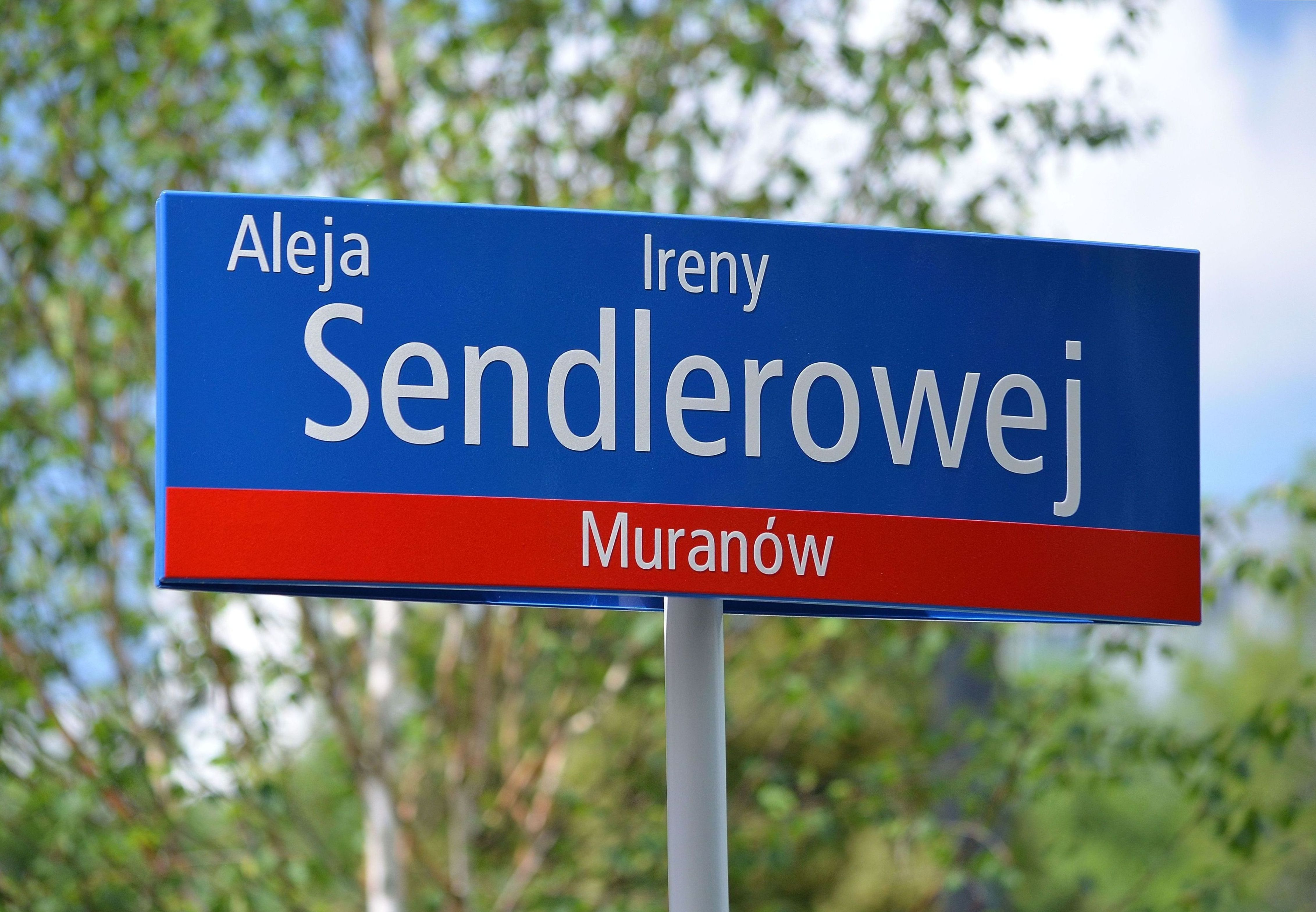 Warsaw City Information street sign on Irena Sendlerowa Avenue